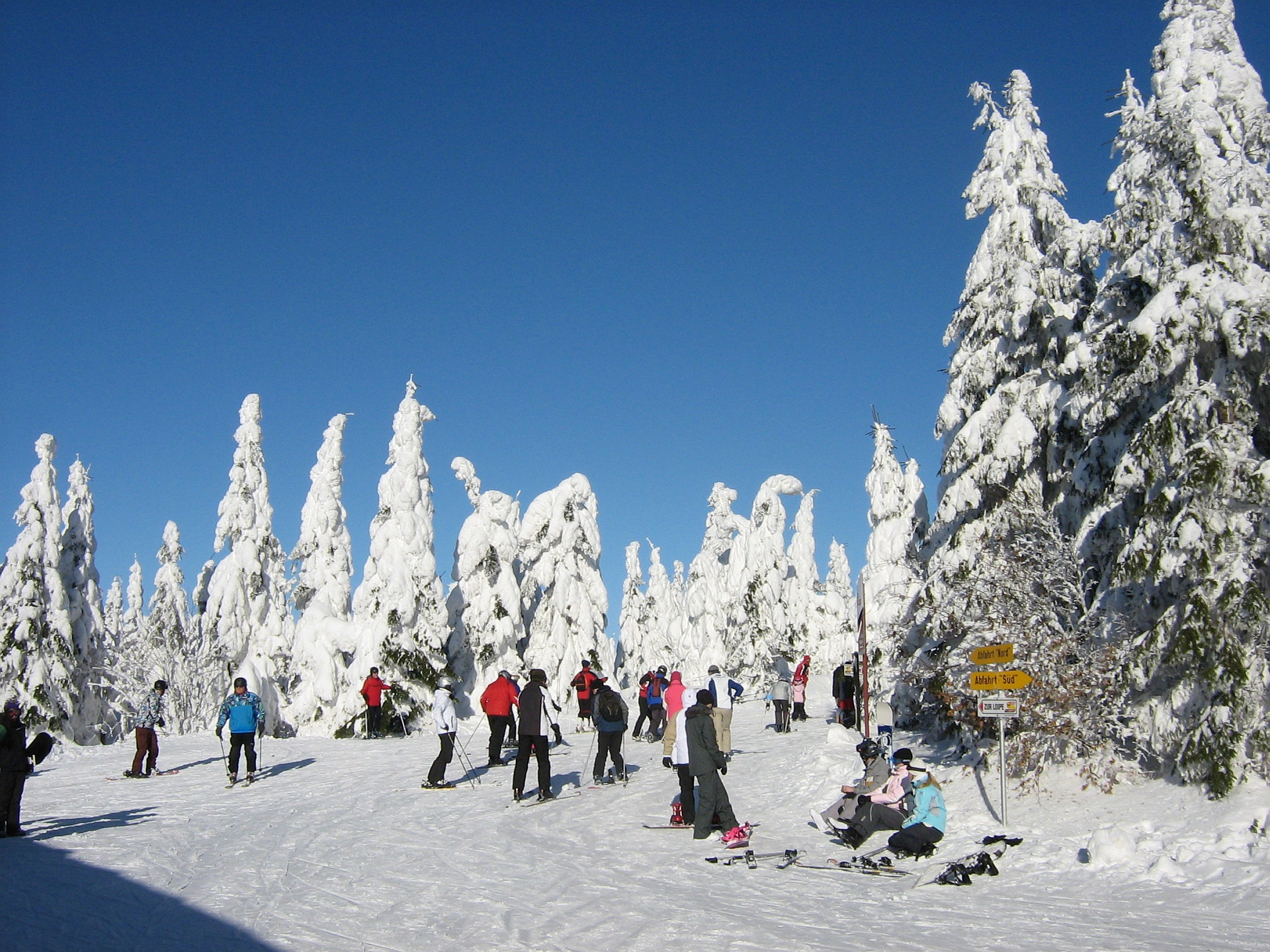 Ochsenkopf summit in February 2010 withs skiers